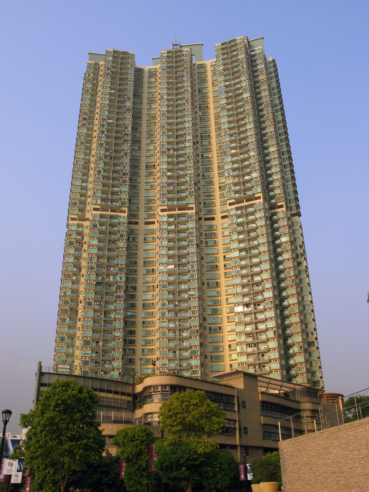 大角咀 凱帆軒 Hampton Place, Tai Kok Tsui